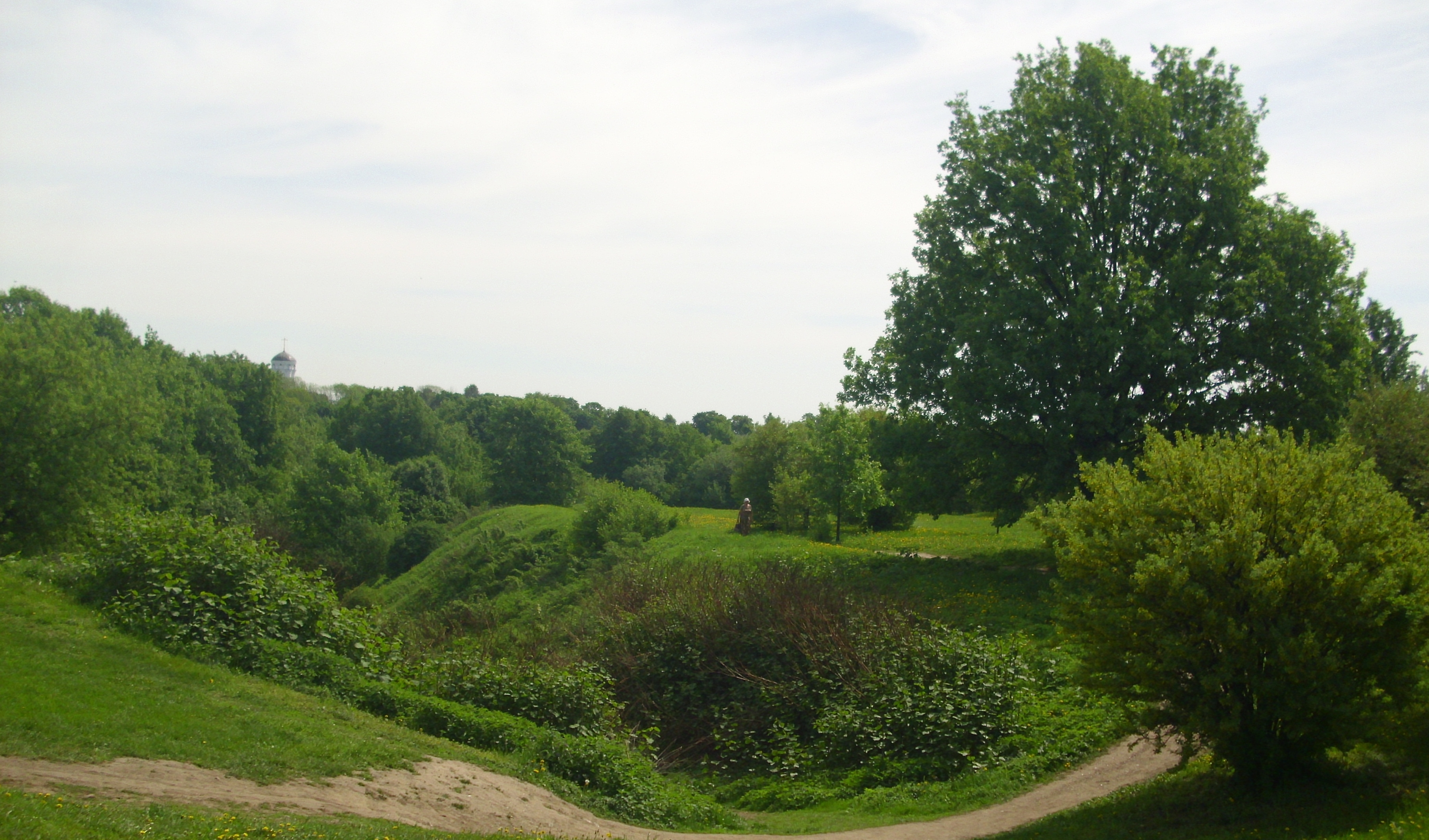 Начало Голосова оврага